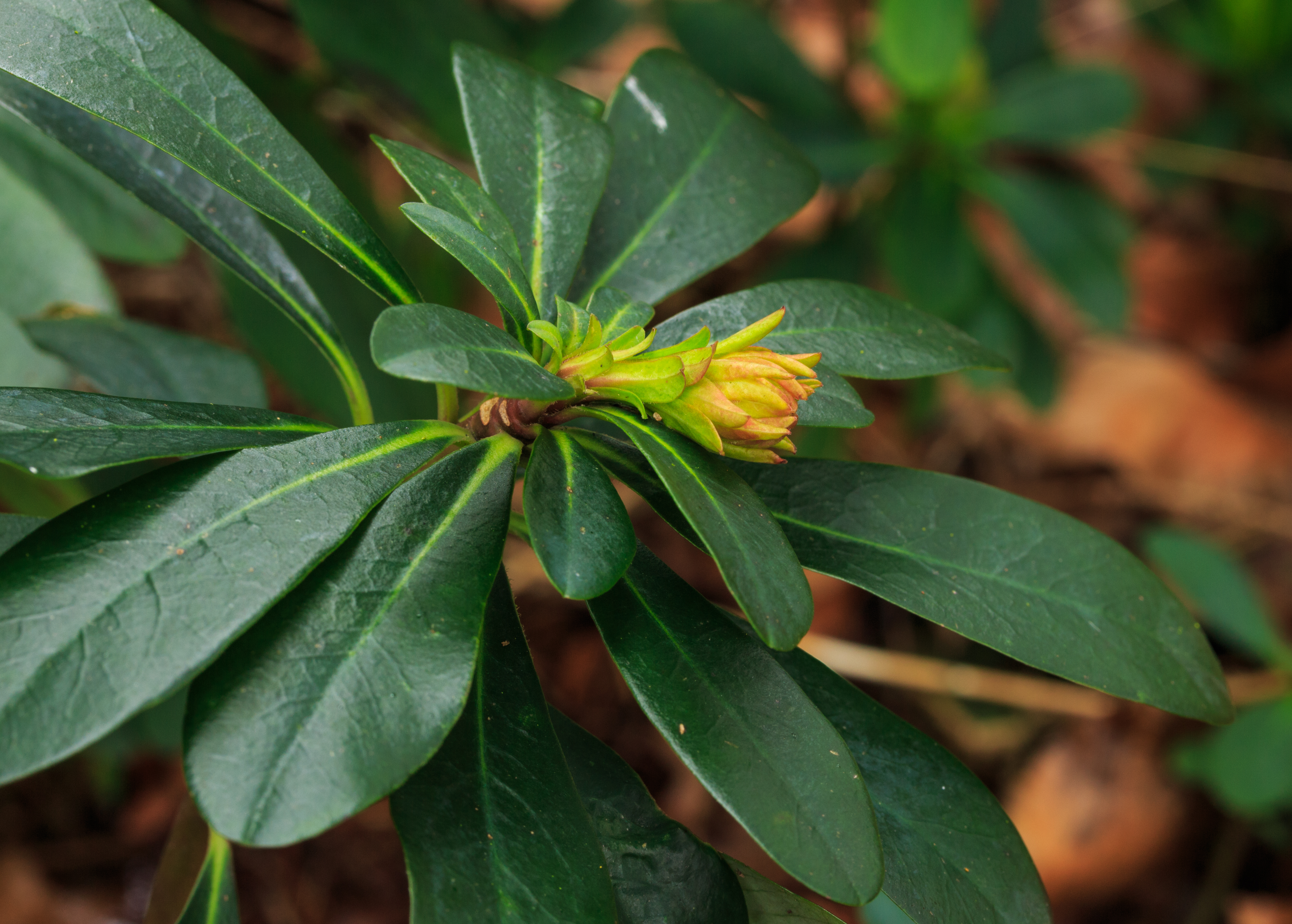 Euphorbia amygdaloides var. robbiae. the flower buds are already visible in February.